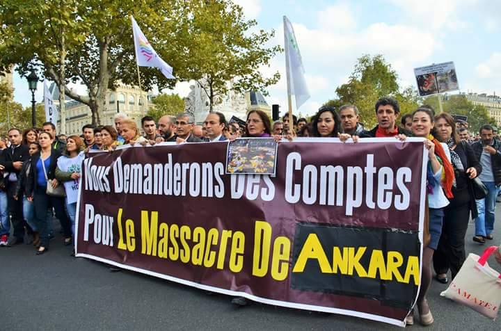 Protests against the 2015 Ankara bombings in Paris.